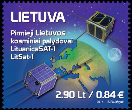 Lithuania satellites stamp 2014